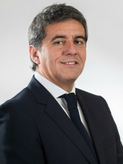 Alejandro Santana Tirachini en la fotografía oficial de diputados periodo 2018-2022. (Fotos: Christel Andler, René Lescornez, Johanna Zárate)